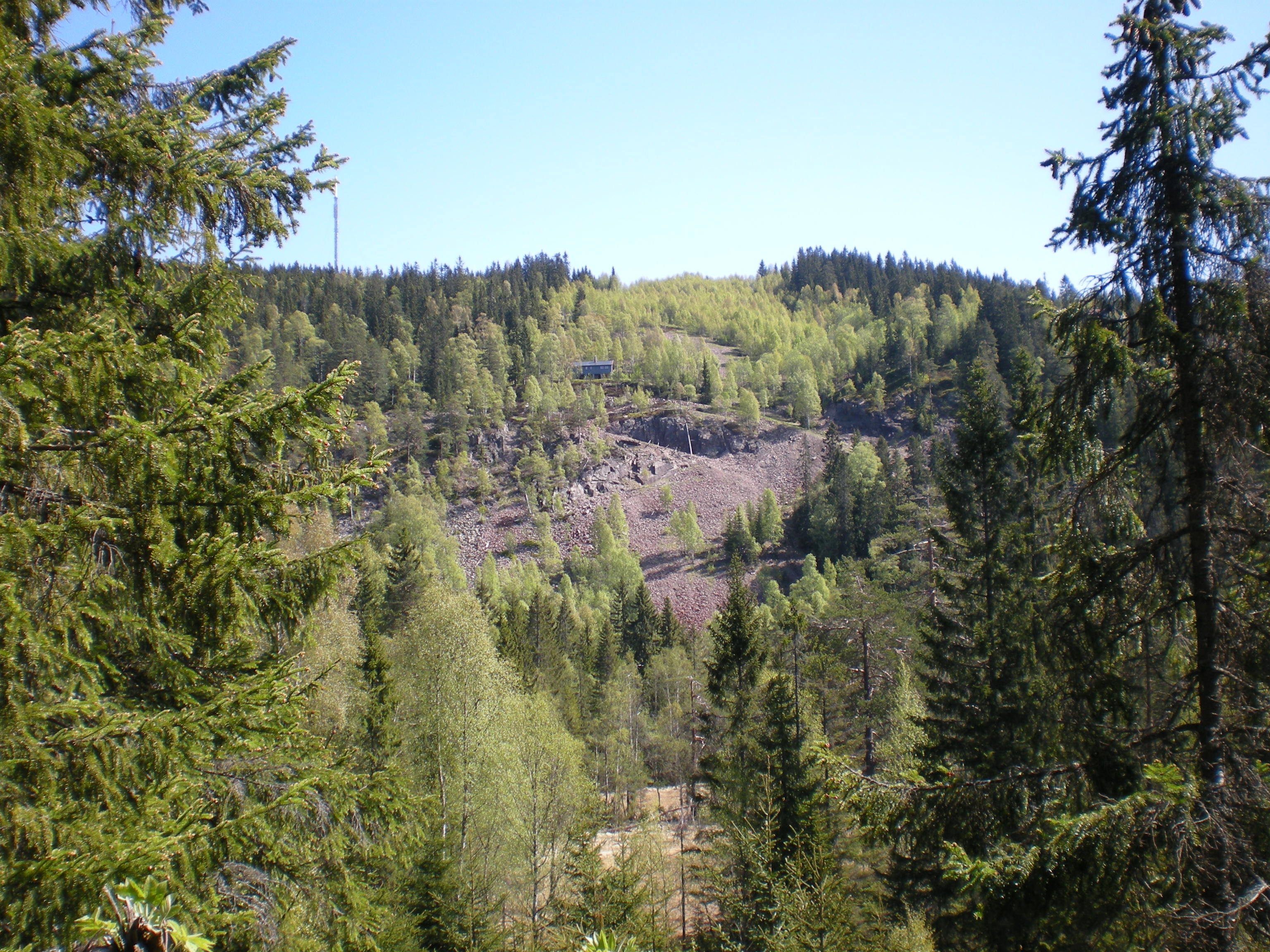 Rødkleiva, site of 1952 Olympic slalom event